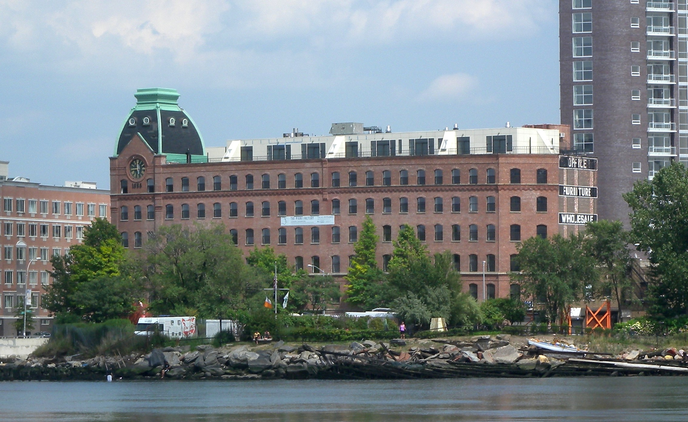 Looking northeast, full zoom, across the channel and Socrates Park, at the Sohmer piano factory on a mostly sunny early afternoon.